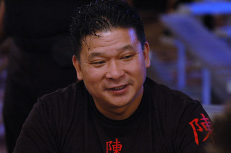 John Chan in 2006 World Series of Poker at Rio Las Vegas.